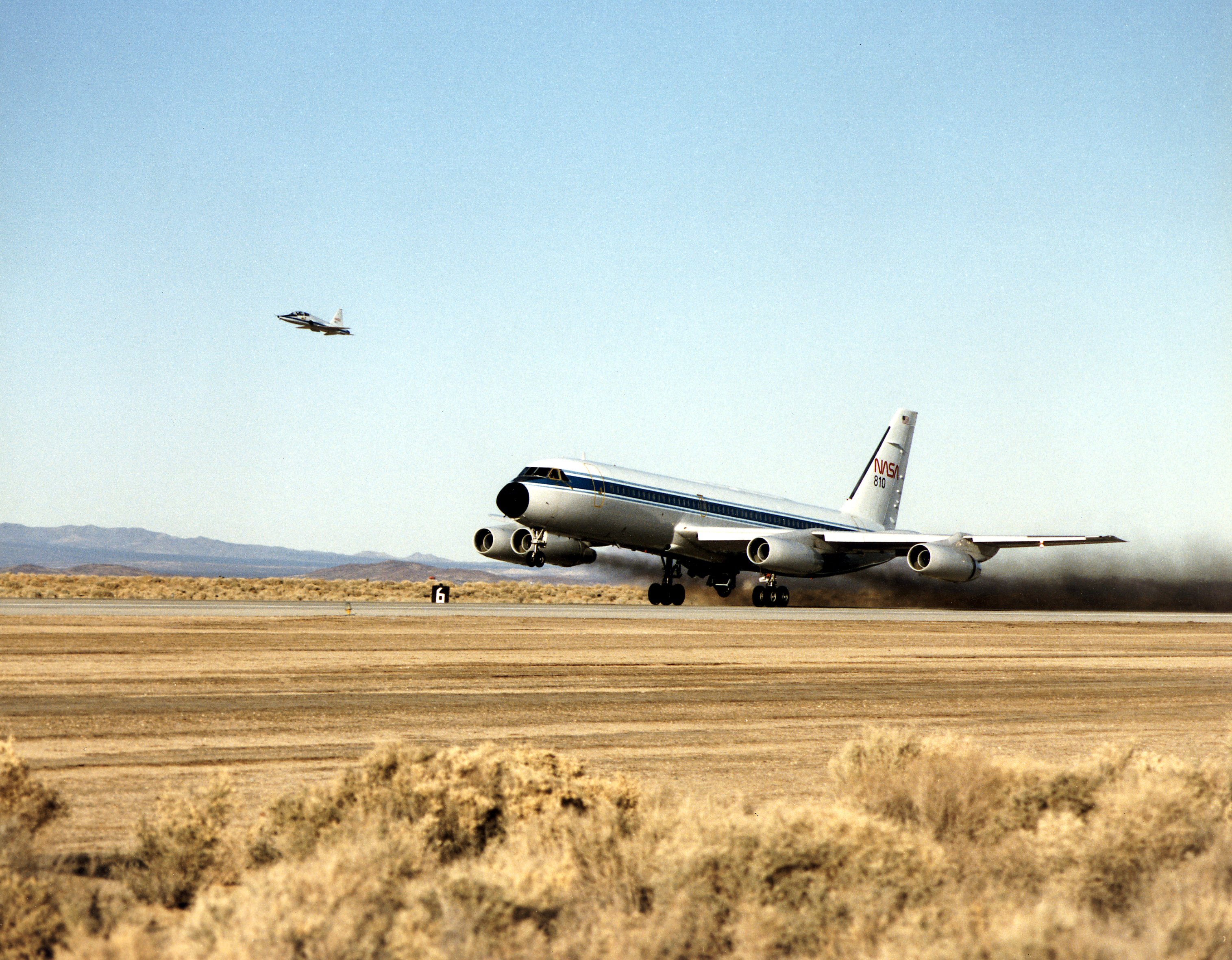 Taking off on a flight from NASA's Dryden Flight Research Center, Edwards, California, is NASA's Landing Systems Research Aircraft, a modified Convair (CV) 990. A new landing gear test fixture representative of the shuttle's landing gear system had been installed in the lower fuselage of the CV-990 test aircraft between the aircraft's normal main landing gear. Following initial flights, static loads testing and calibration of the test gear were conducted at Dryden. Tests allowed engineers to assess the performance of the space shuttle's main and nose landing gear systems under varying conditions.